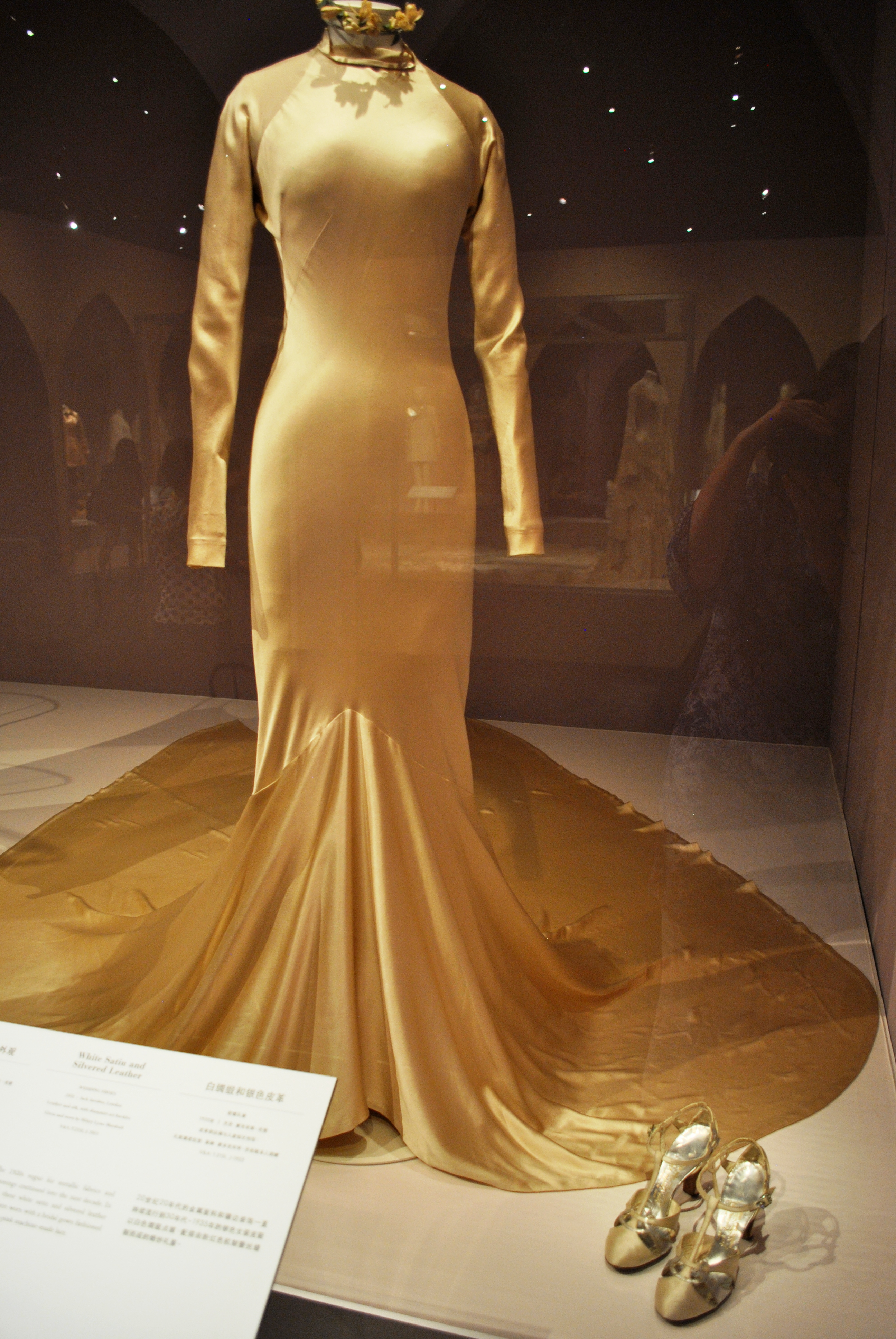 1934 wedding dress by Charles James for Baba Beaton